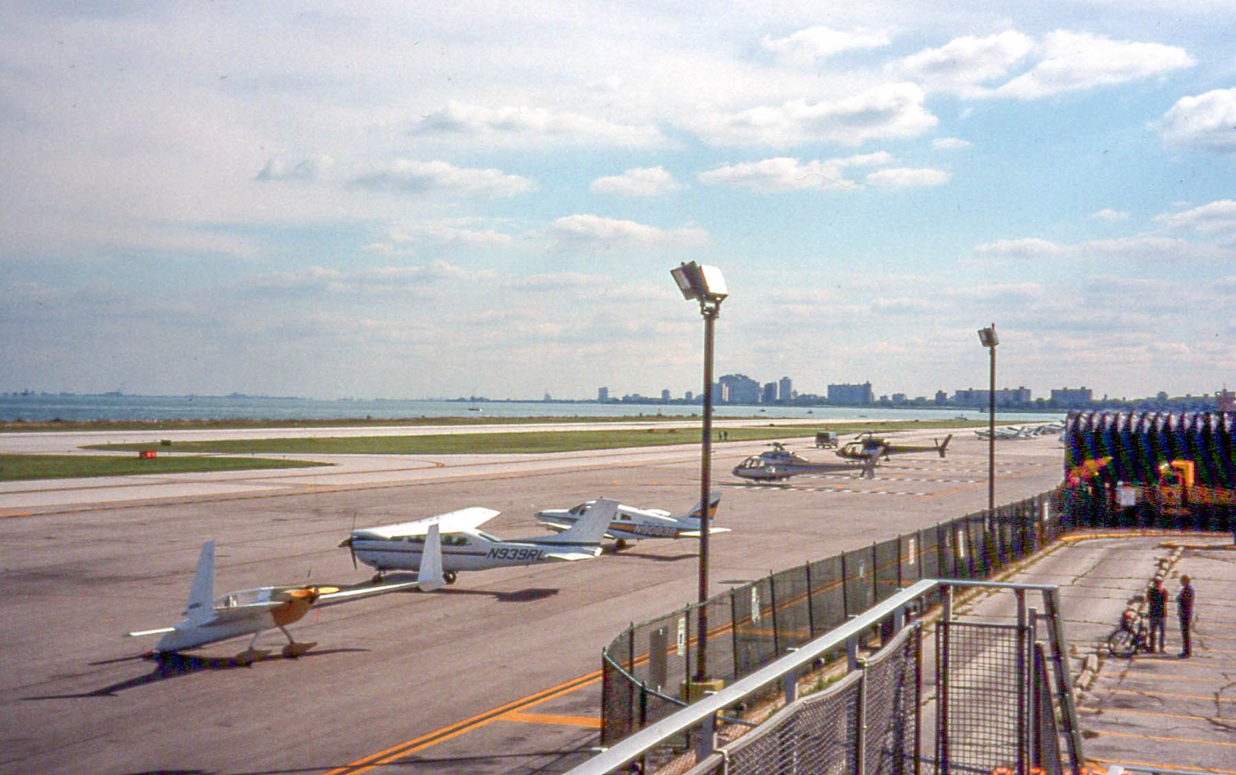 19970921 13 Meigs Field Chicago